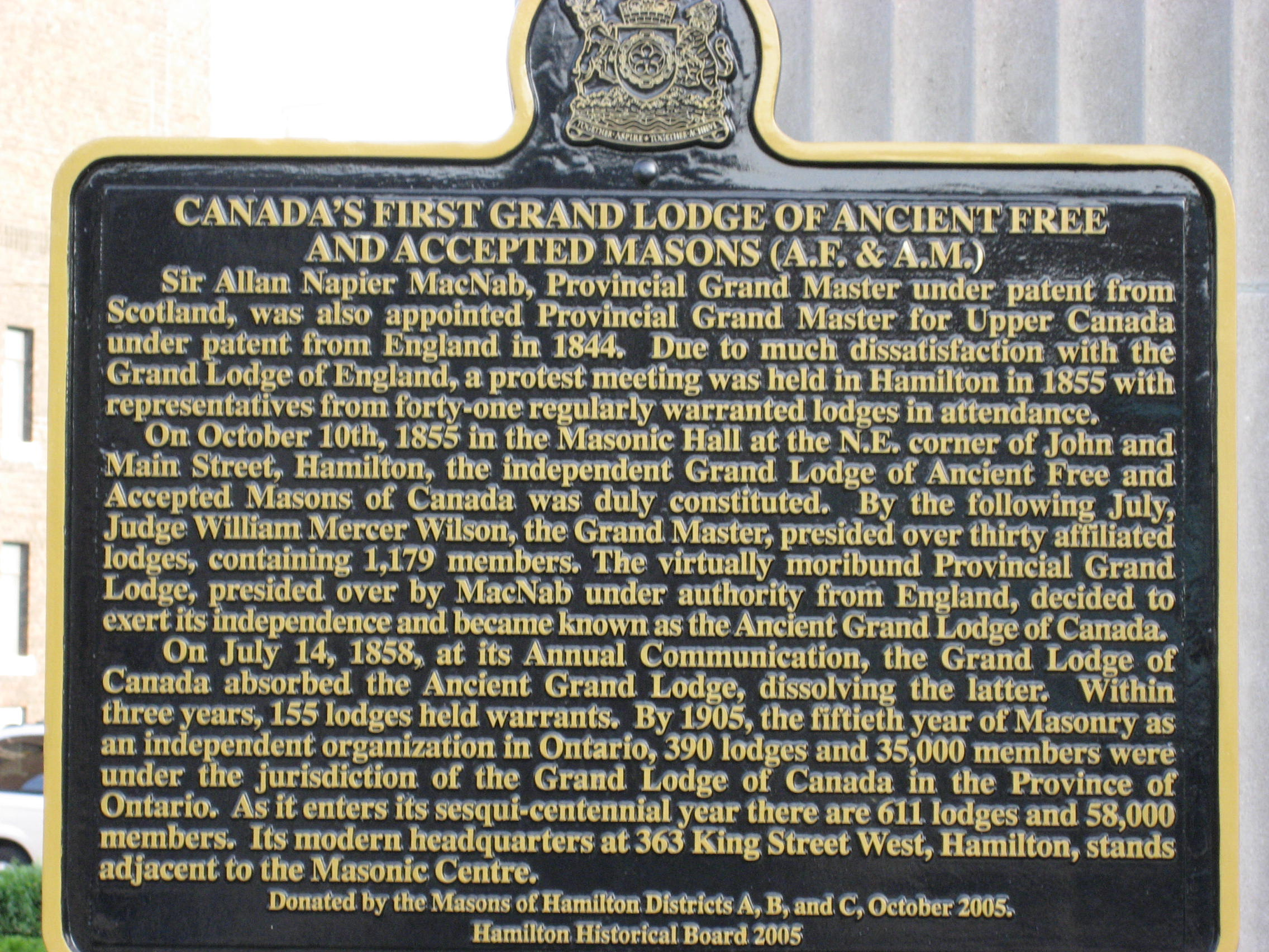 Grand Lodge of Canada, Hamilton Historical Board, plaque, Hamilton